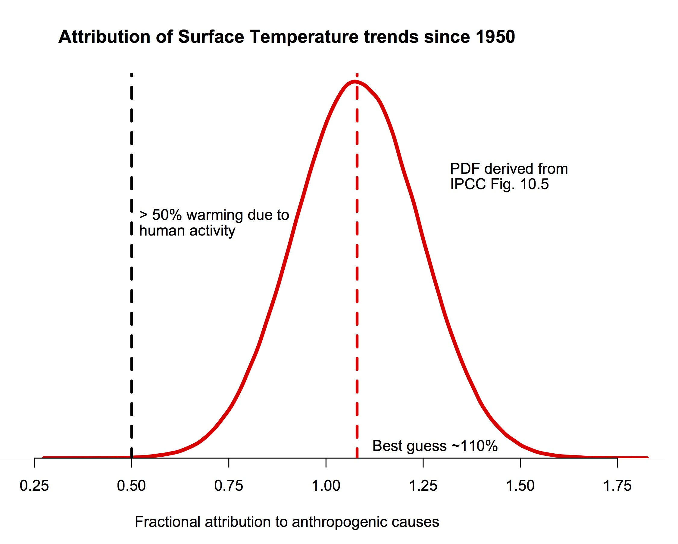 PDF (Probability Density Function) of attribution of surface temperature trends since 1950 based on IPCC AR5 10.5, as described at